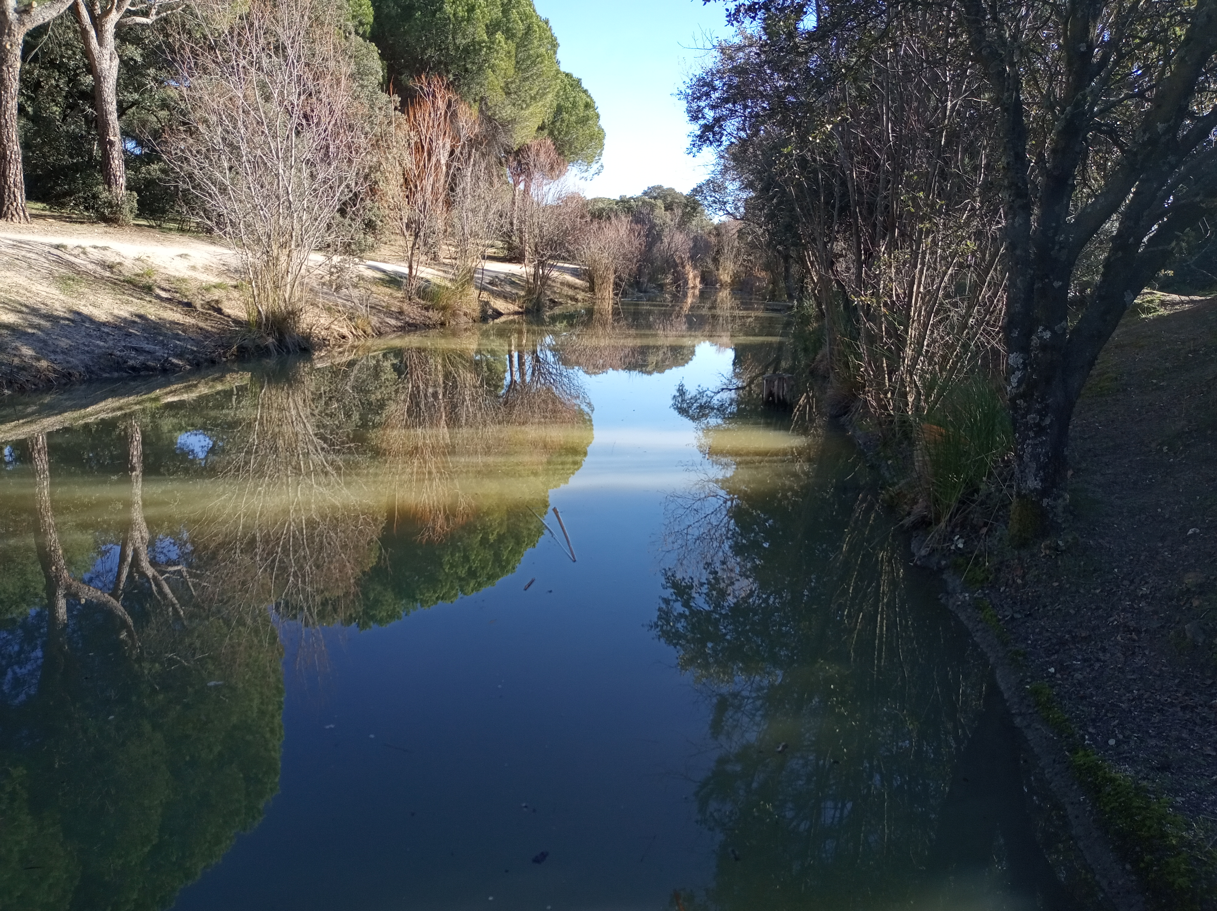 Canal of Guadarrama in Navalcarbon, Las Rozas de Madrid, Spain